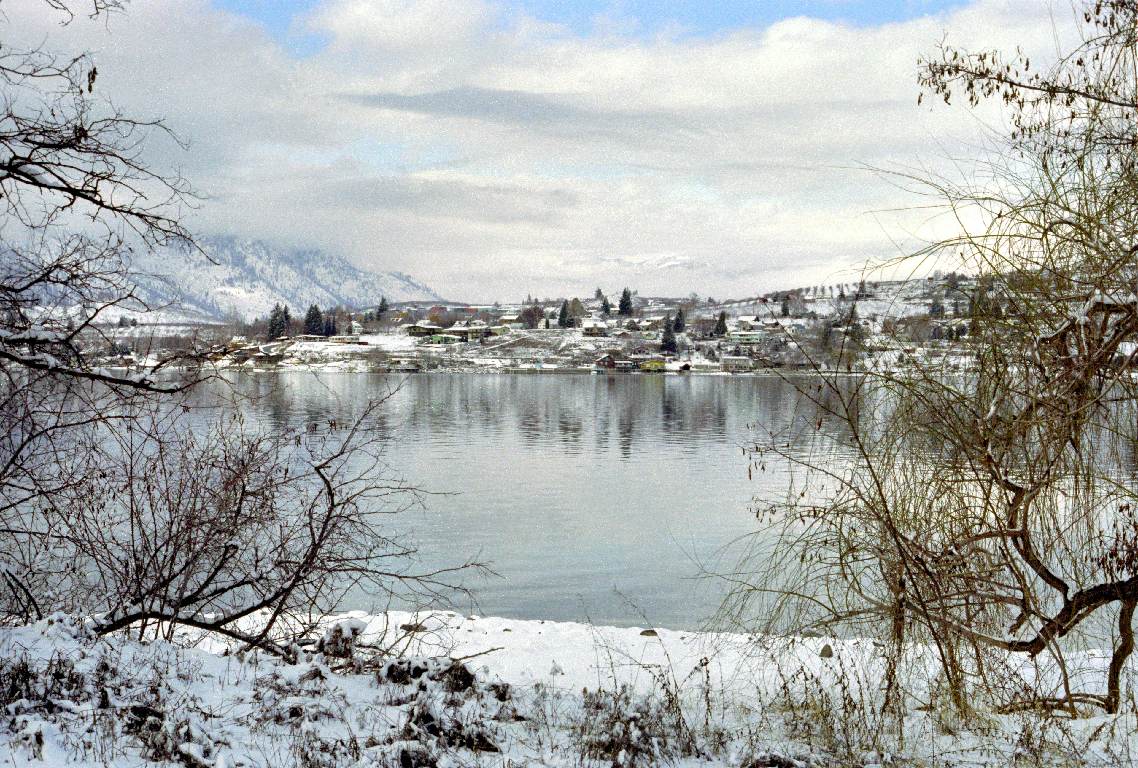 Village of Manson Washington from Wapato Point